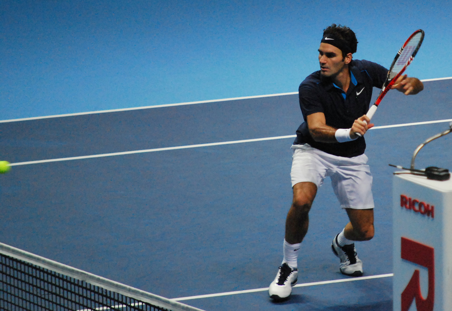 Roger Federer at the 2011 World Tour Finals